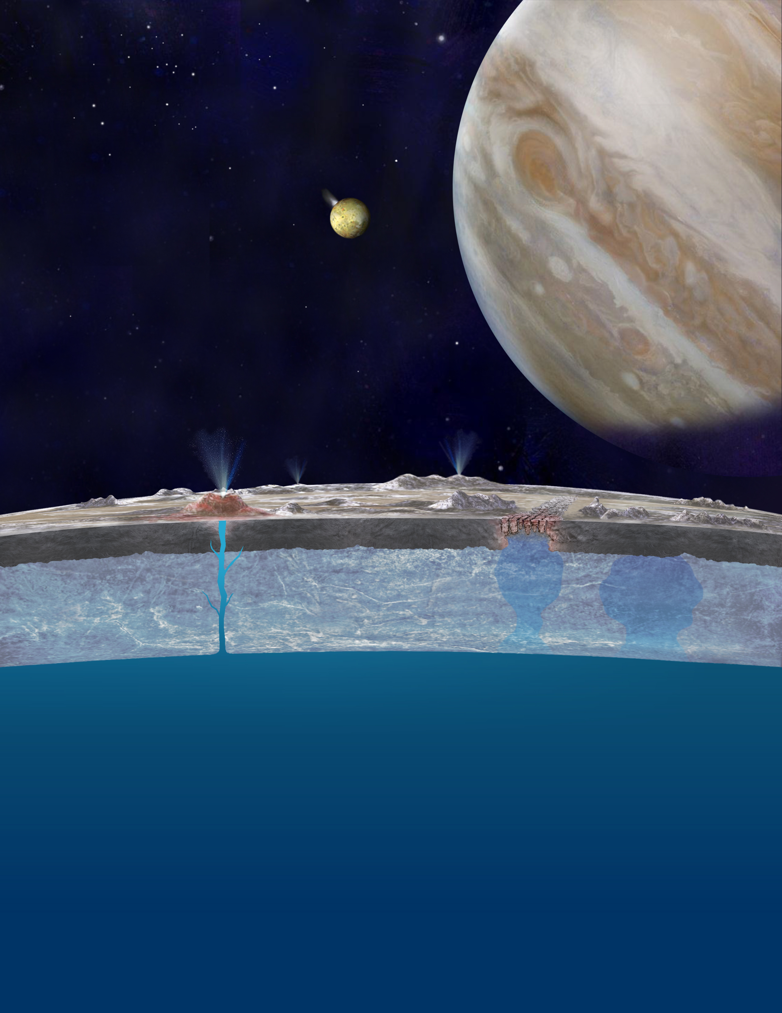 Based on new evidence from Jupiter's moon Europa, astronomers hypothesize that chloride salts bubble up from the icy moon's global liquid ocean and reach the frozen surface where they are bombarded with sulfur from volcanoes on Jupiter's innermost large moon Io. The new findings propose answers to questions that have been debated since the days of NASA's Voyager and Galileo missions. This illustration of Europa (foreground), Jupiter (right) and Io (middle) is an artist's concept.